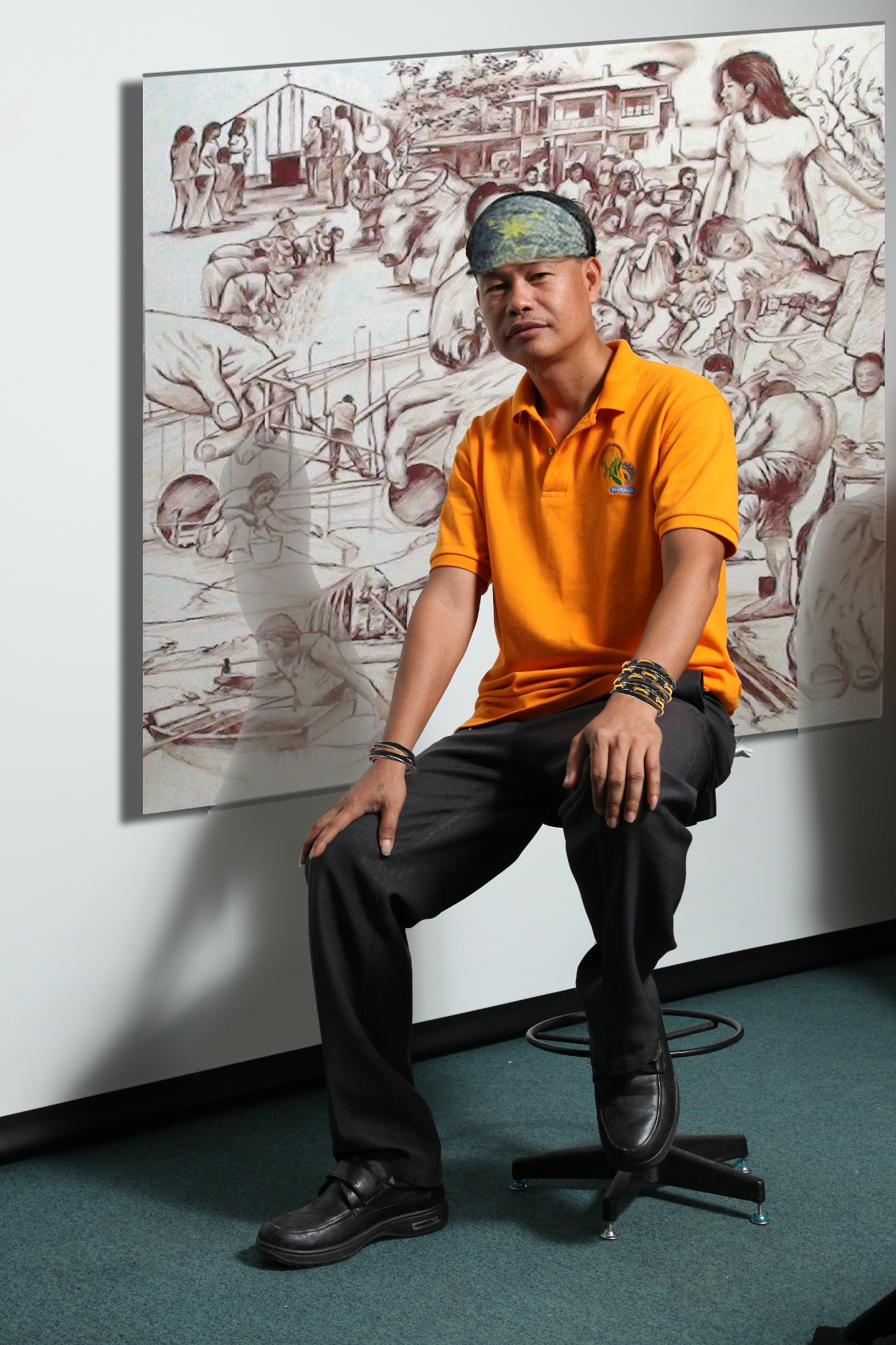 His Mural Blood painting at the back